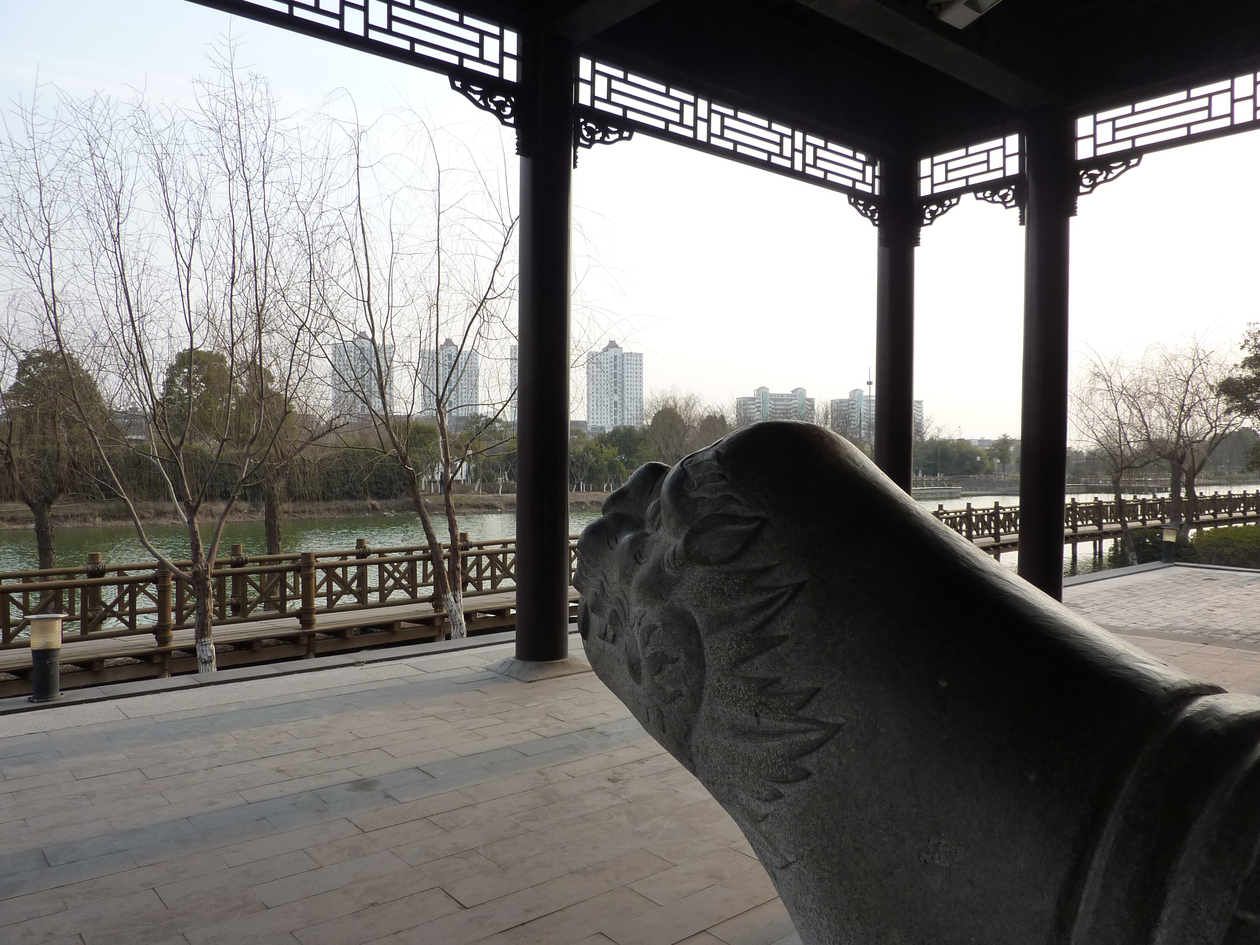 A pavilion with five steles (all modern replicas) associated with Zheng He's voyages and various events along it. The steles, left to right, are: (1) Stele from Tianfei Ling, Changle (near Fuzhou), Fujian; (2) The trilingual stele from Galle, Ceylon; (3) The tortoise-borne stele from Tianfei Gong, Nanjing; (4) Stele from Guli (Calicut); (5) Stele from Liujia Harbor in Taicang, Suzhou, Jiangsu. This photo: Admiral Zheng He's bixi tortoise overlooking the 4th working pool.